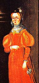 Margaret of Thuringia, electress of Brandenburgo